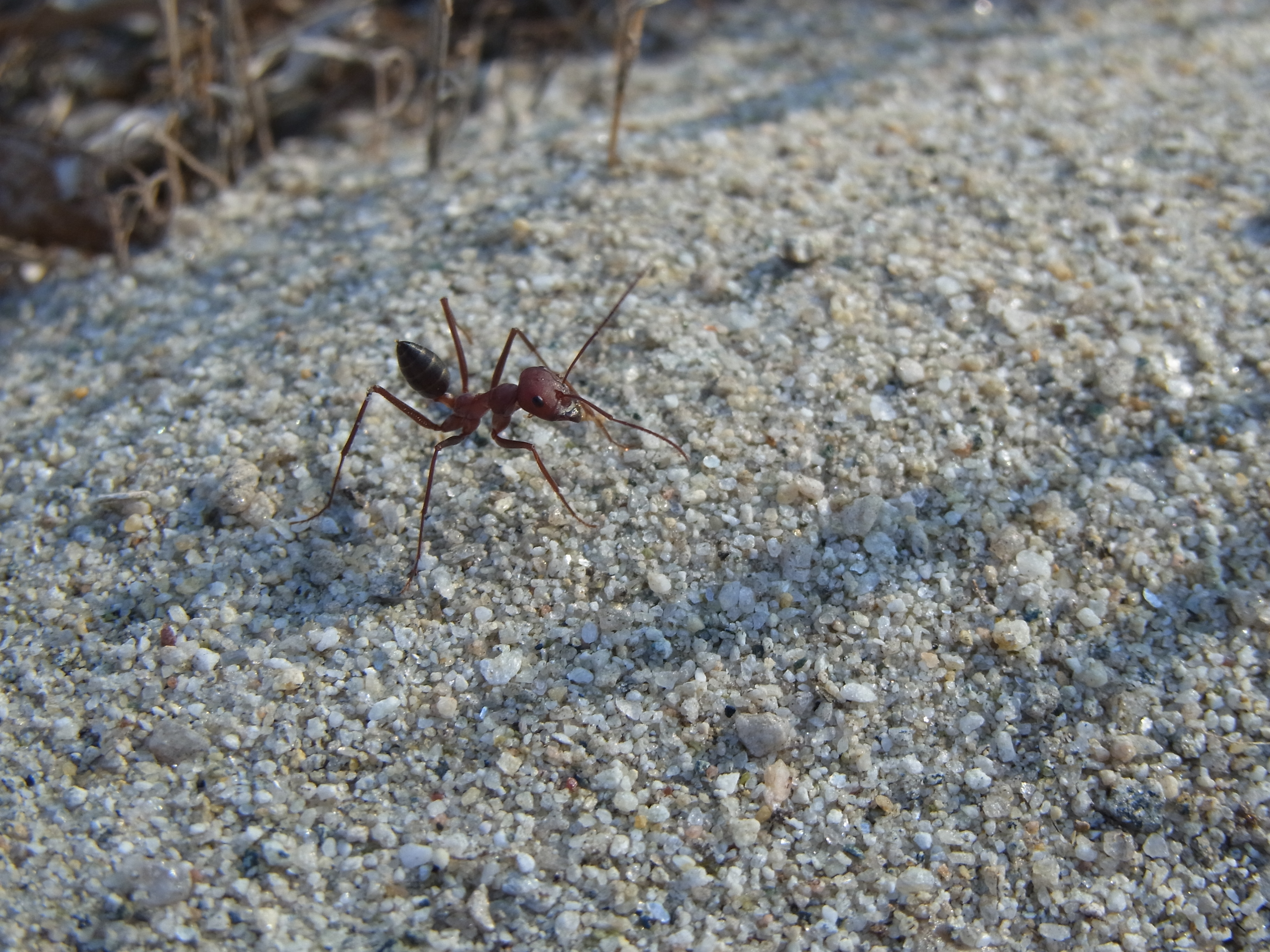 Cataglyphis nodus, Skala Prinos, Thasos / Greece